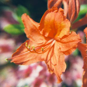 Author: Balabam This photo has been digitalized to be used under CC-BY-SA license. enjoy it